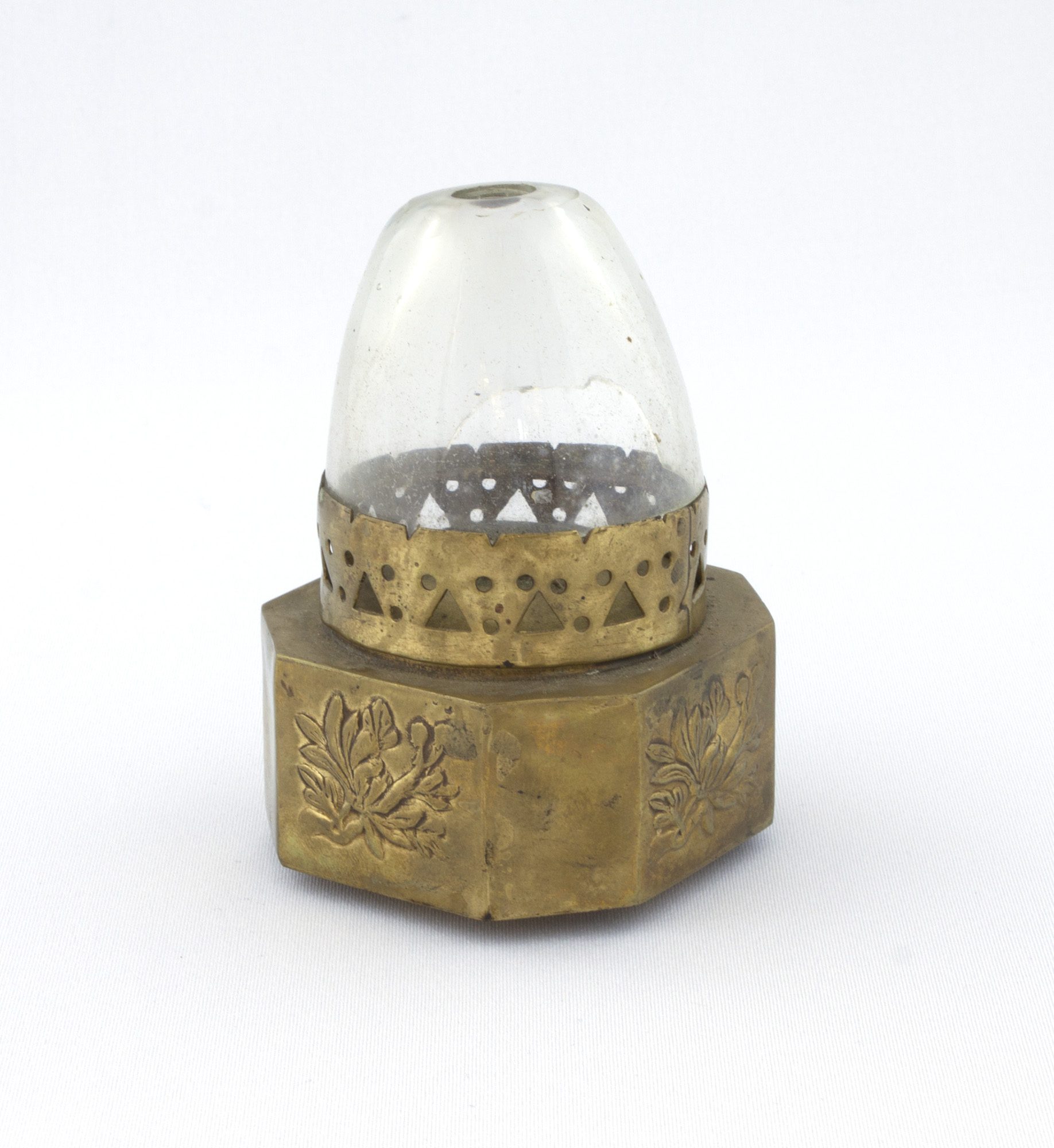 Creator: Unknown Date Created: [ca. 1900] Source: University of British Columbia. Library. Rare Books and Special Collections Permanent URL: Project Website